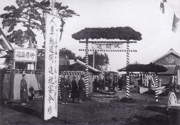 Day when "Railway that connects Ohara with Otaki" opened.